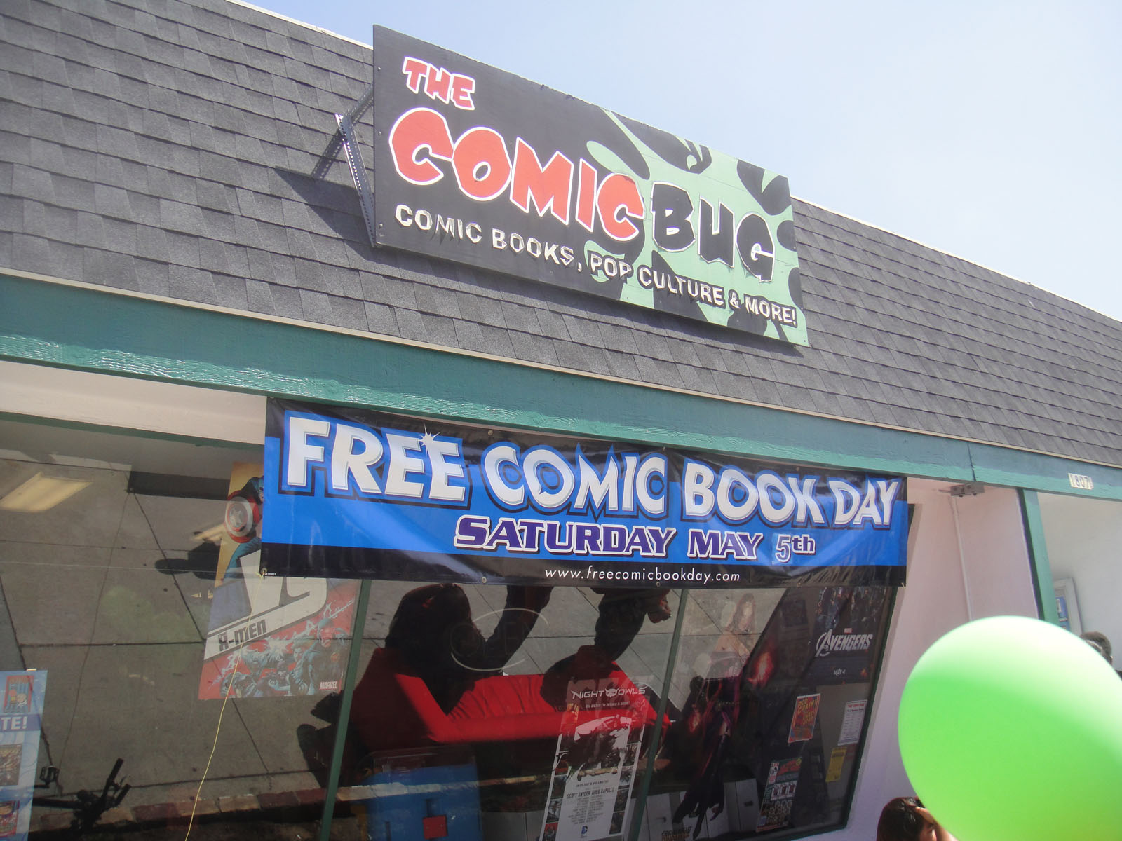 Free Comic Book Day 2012 - The Comic Bug